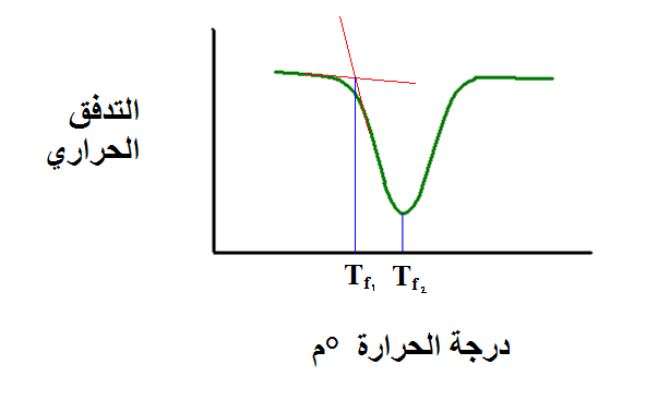 How to find melting temperature on DSC curve